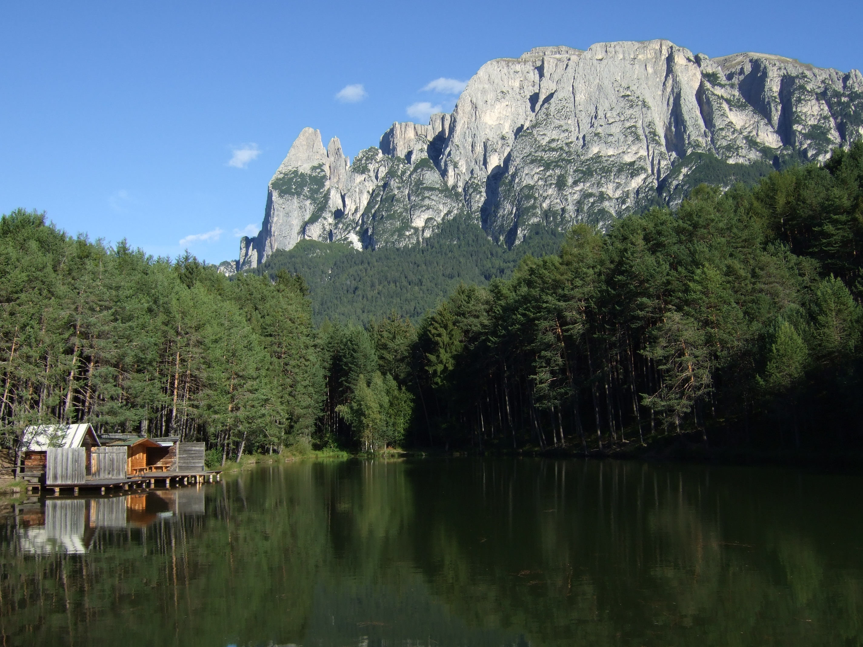 Schlern mountain Völs am Schlern, (South Tyrol), taken from the Gflirer Weiher (Lake Gflirer)